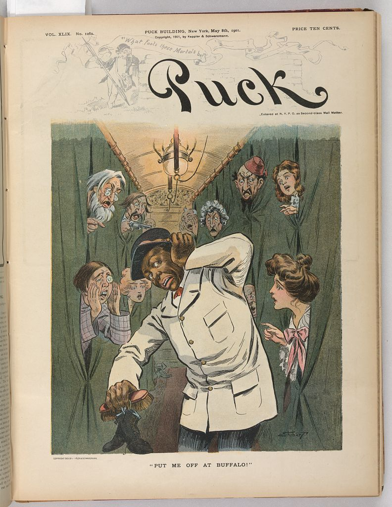 Cover to May 8, 1901 edition of Puck magazine, featuring "Put Me Off at Buffalo" by S.D. Ehrhart. Also as Library of Congress at